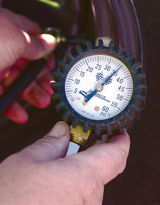 Master Sgt. Warren Howard using a tire-pressure gauge to makes sure his tire pressure is at the proper level to give him added control of his car during a race.